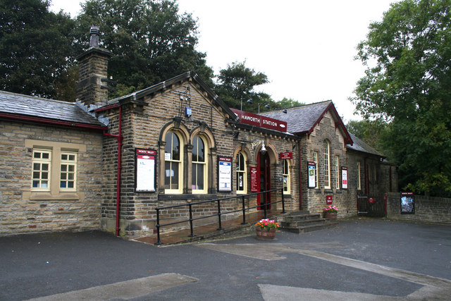 Haworth station The station frontage at Haworth on the preserved Keighley and Worth Valley Railway.